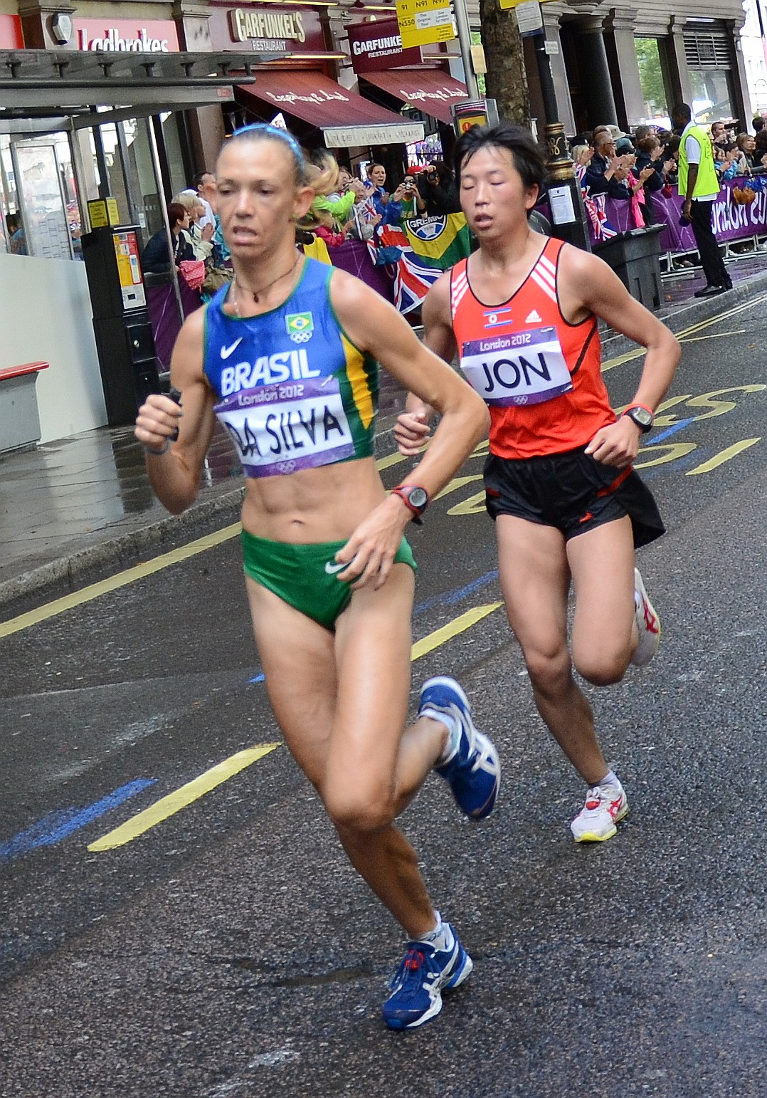 Adriana Aparecida da Silva (Brazil) (left) and Jon Kyong-Hui (North Korea) (right) in the marathon (w) at the Olympic Games 2012